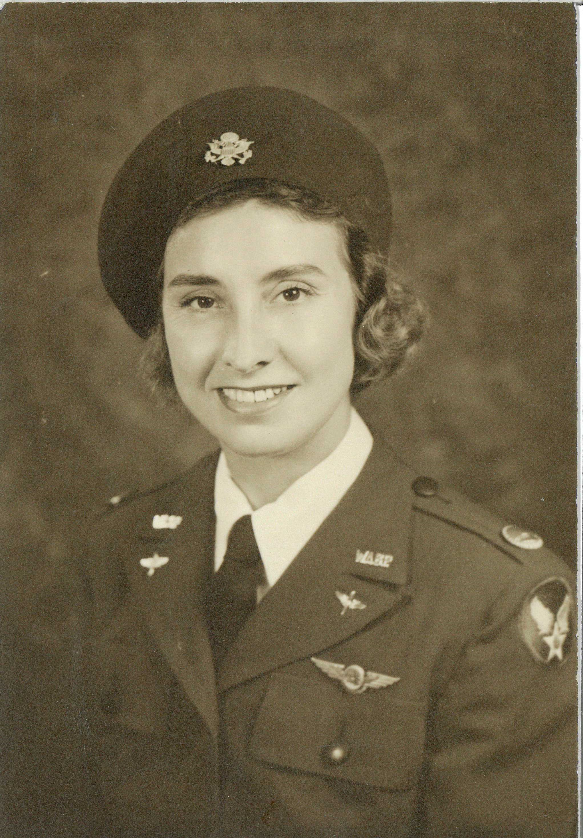 Adela Riek Scharr in her WASP uniform, Spring 1944